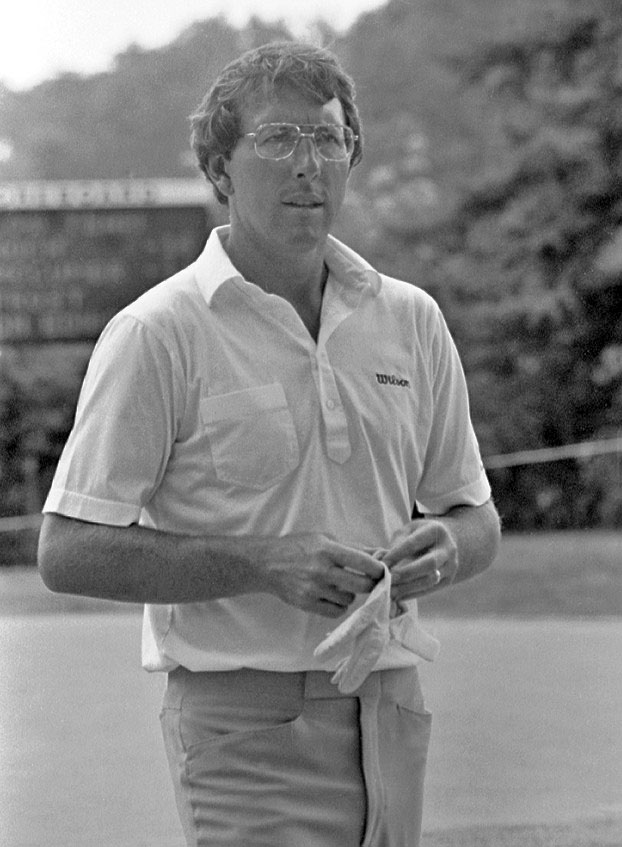 American golfer Hale Irwin in 1986.